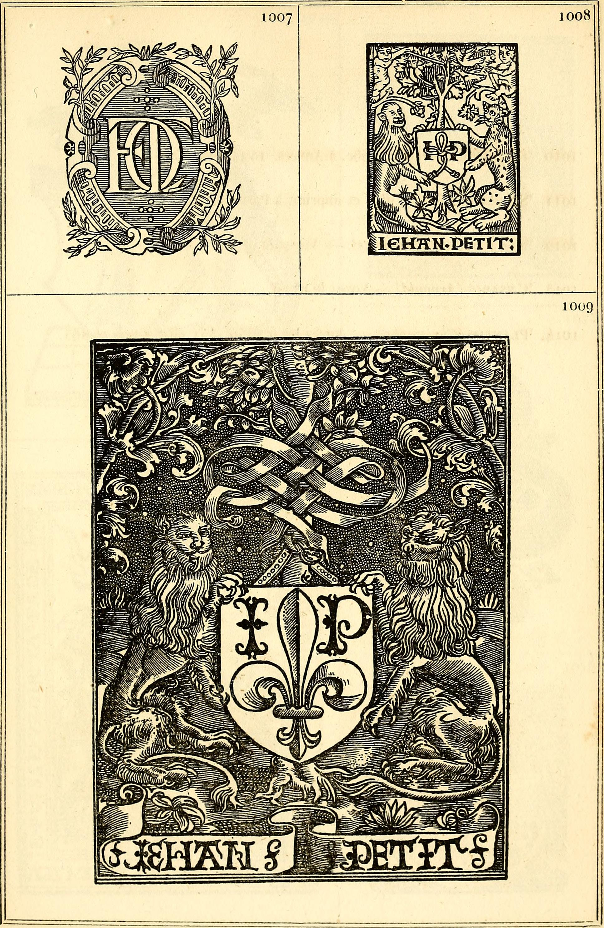 Title: Marques typographiques, ou, Recueil des monogrammes, chiffres, enseignes, emblèmes, devises, rébus et fleurons des libraires et imprimeurs qui ont exercé en France depuis l'introduction de l'imprimerie en 1470 jusqu'à la fin du seizième siècle : à ces marques sont jointes celles des libraires et imprimeurs qui pendant la même période ont publié, hors de France, des livres en langue française Year: 1867 (1860s) Authors: Silvestre, L.-C. (Louis-Catherine), 1792-1867 Subjects: Printers' marks, French Publisher: A Paris : Renou et Maulde Text Appearing Before Image: PSALM. XXVIII. 588 NOMS DES LIBRAIRES ET IMPRIMEURS. 1007 *C0TINET (Denis), libr. et iniprim. à Paris. i588—iSgi, 1008 * .Petit (Jehan). — Voyez les n 2lx, ^5 et 867.1009 *; MARQUES TYPOGRAPHIQUES. 589 Text Appearing After Image: 590 NOMS DES LIBRAIRES ET IMPRIMEURS. 1010 *De Bonté (Grégoire), libr. à Anvers. 1022—1553. 1011 ^Sergent (Pierre), libr. et imprim. à Paris. i53i—16^7. 1012 *Knoblouchius (Joannes). — Voyez le 11 635. 1013 *Cj;saris (Arnould) — Voyez le 11° 89. 1014 Plantin (Christophe). — Voyez les 11 35o, 35i, 807 à 809 et 865. ftlARQUES TYPOGPxAPHIQUES. 591 1010